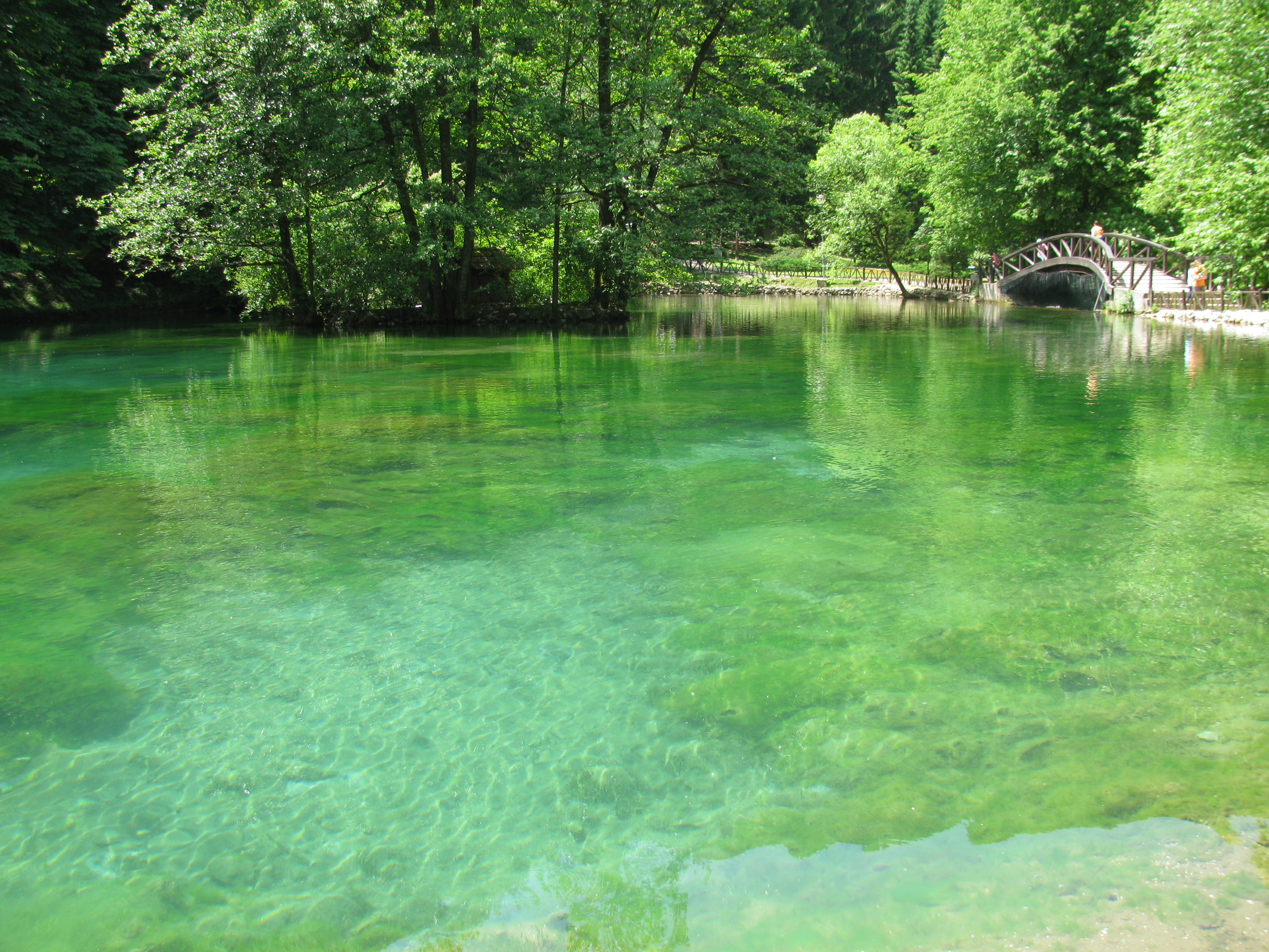 Sarajevo park in the municipality of Ilidža on the river Bosna.